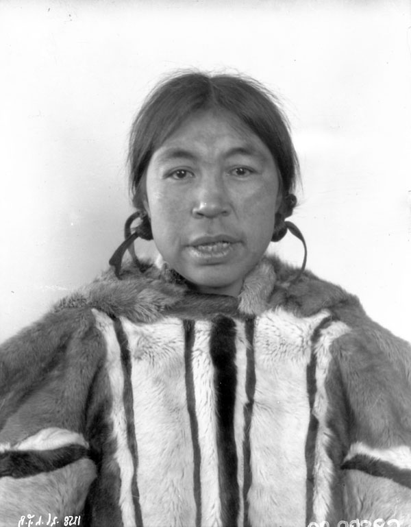 Aivilingmiut woman, Repulse Bay (Naujaat), Nunavut, Canada, 1926 (Original caption: "Awilingment woman, [N.W.T.]")